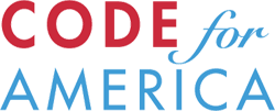 Code for America Logo